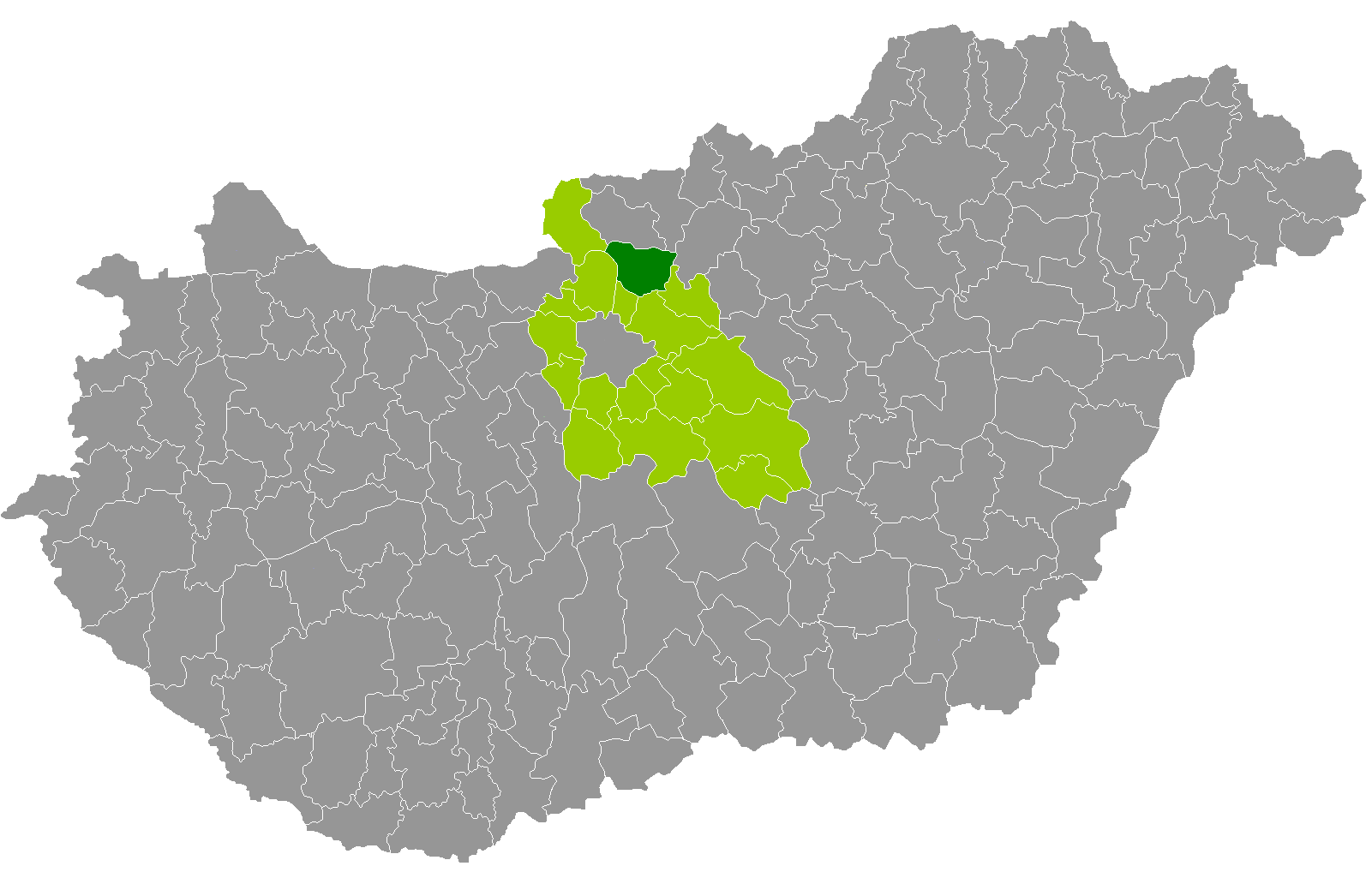 Location of Vác District, Pest, Hungary